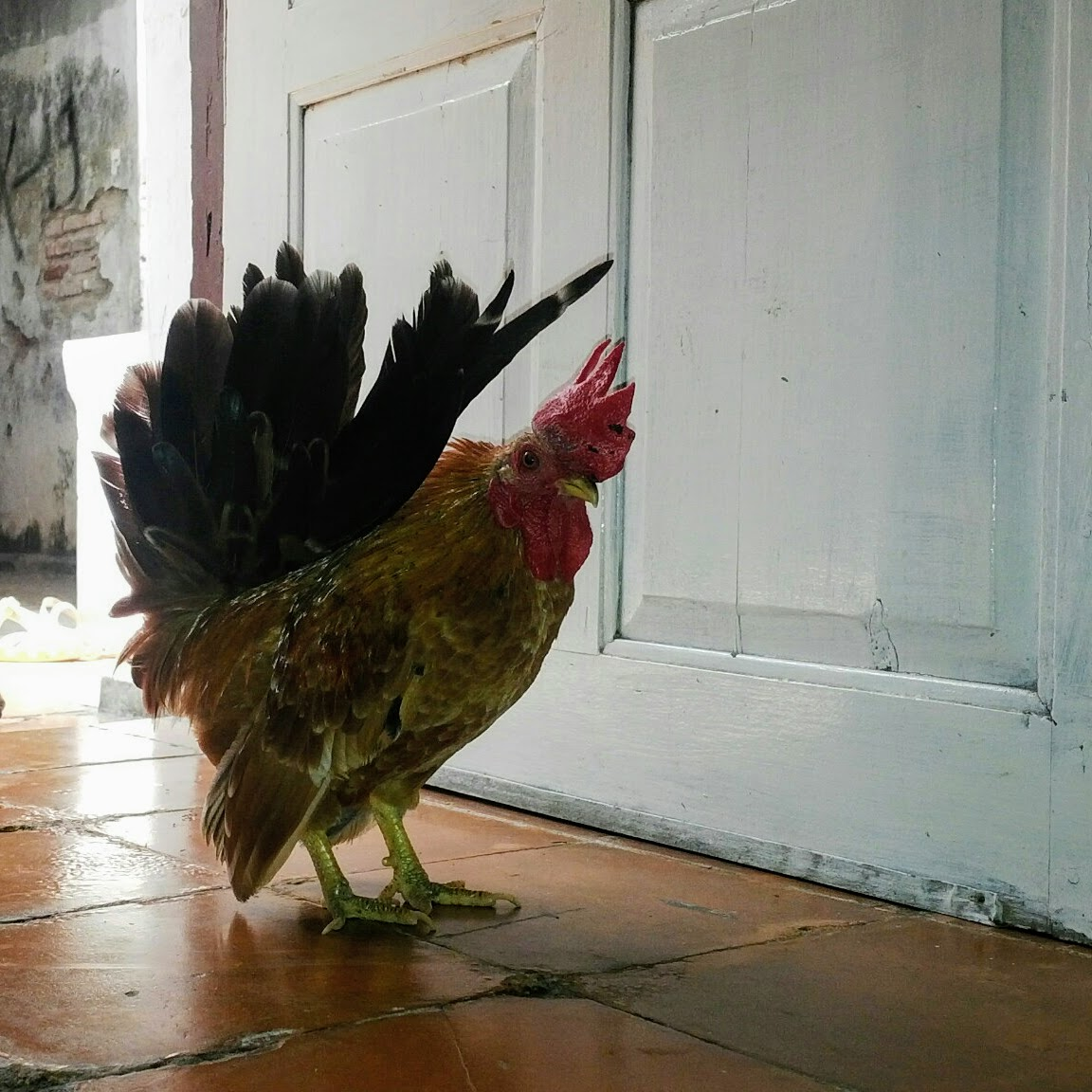 male bantam chicken